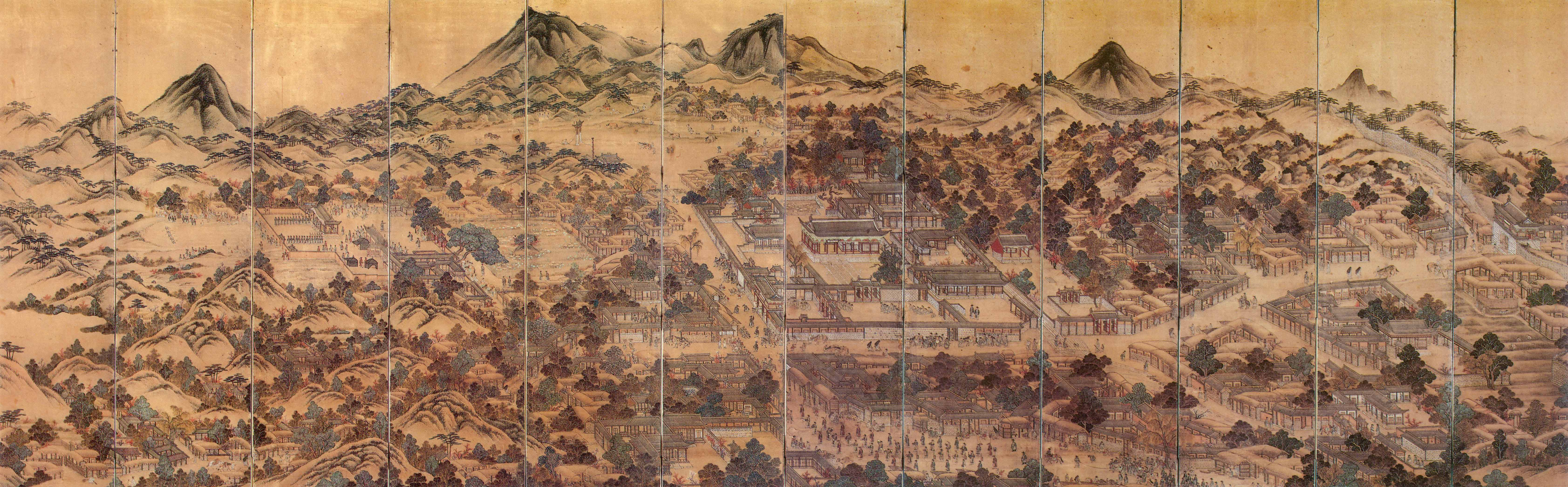 Gyeonggi gamyeong do